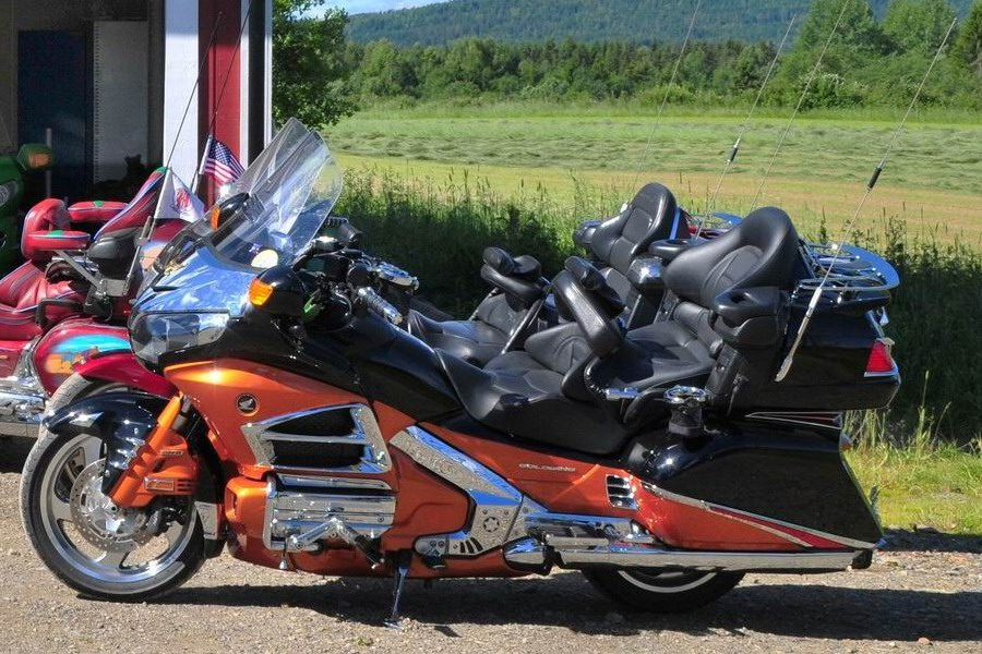 Gold Wing GL 1800 SC 68 in Norway